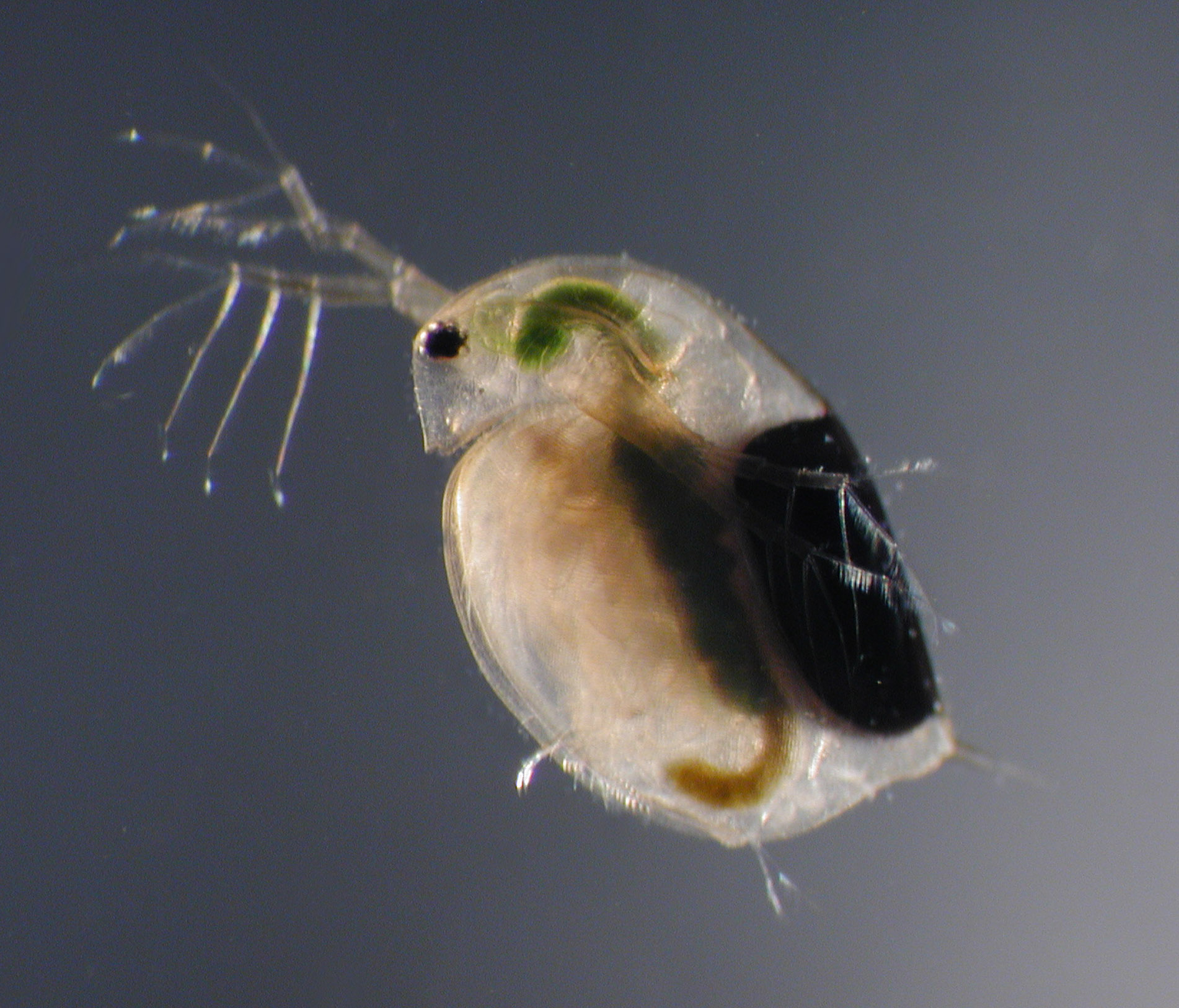 Female Daphnia magna carrying a resting egg ("ephippium"). The black ephippium is part of the carapace and contains usually two sexual eggs.